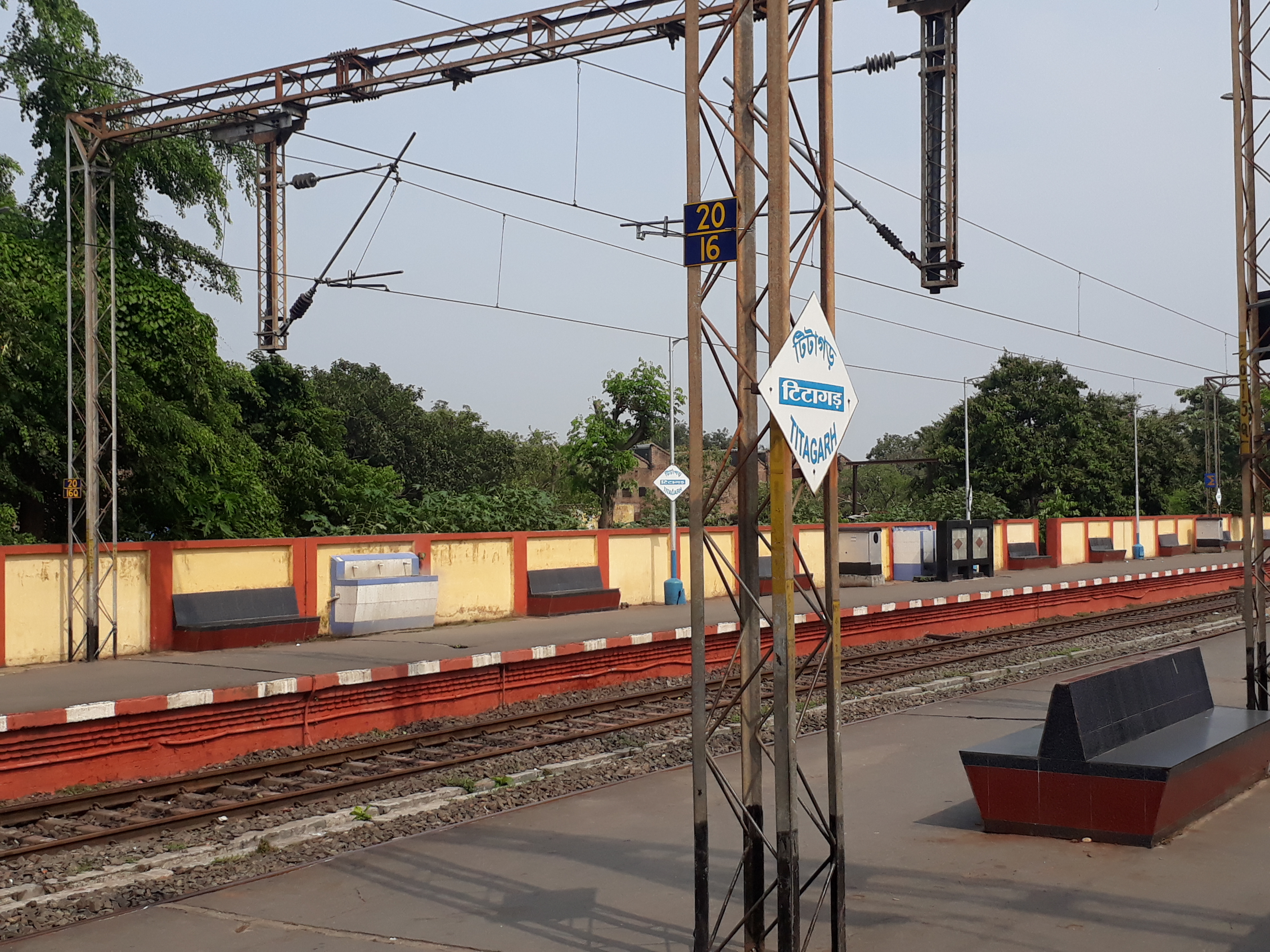 Titagarh railway station in Sealdah main line, Titagarh, North 24 Parganas.